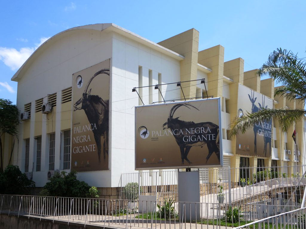 The Museu de História Natural in Luanda showcases Angola's flora and fauna.